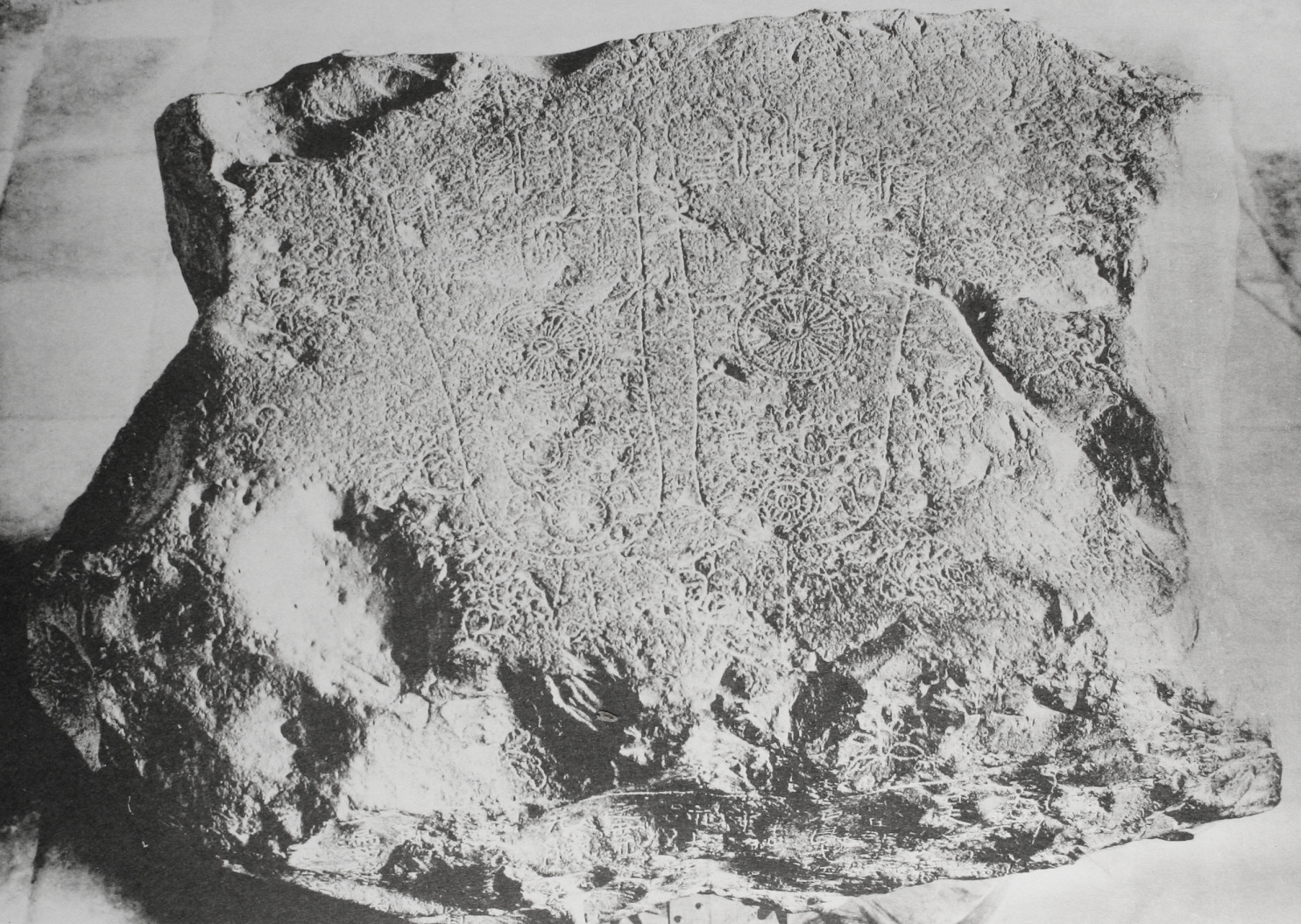 Buddha footprint incised stone with circles of truth (horin) engraved in the feet;. Heighy about69cm at front、Depth about 74.5cm、wide about 108cm. Japan's oldest Buddha footprint , July 27, ACE753 Nara period, Japan, Yakushi-ji, Nara, Japan